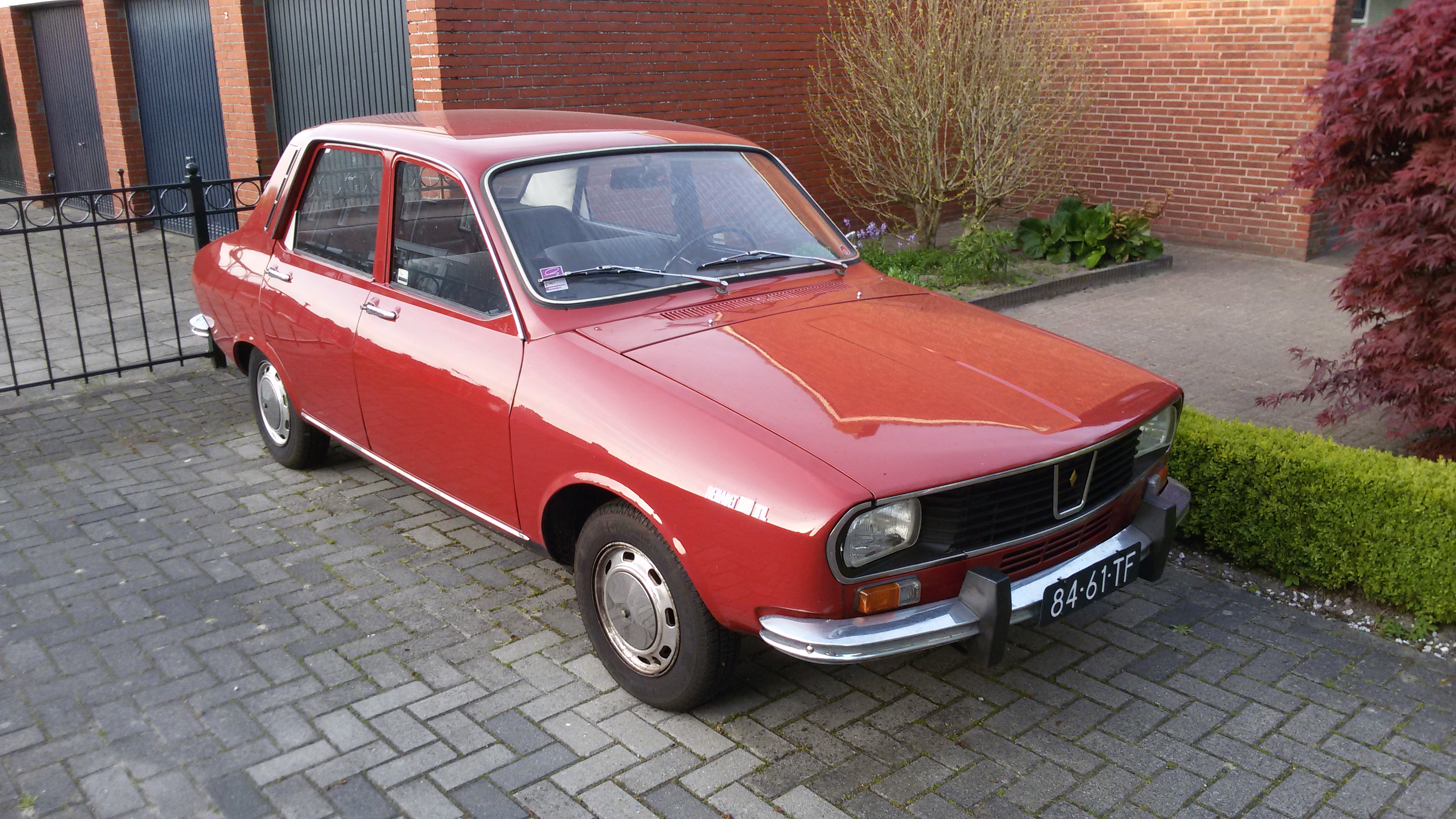 Renault 12 TL 1972